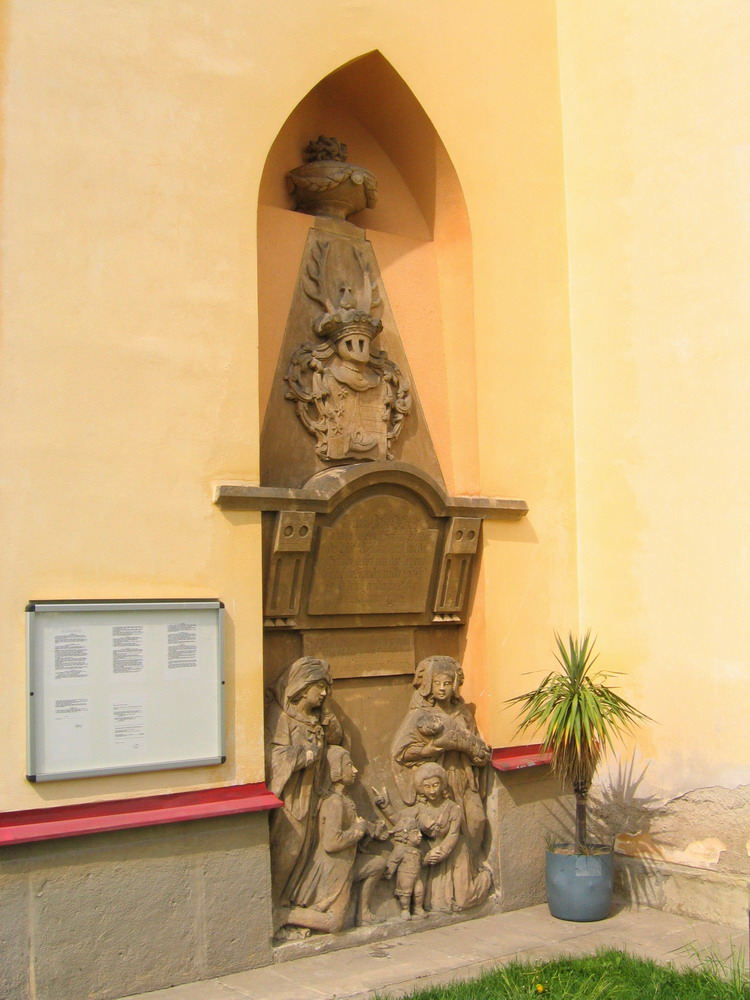 Church of the Trnsfiguration in Velichovky, Náchod District, Czech Republic. Epitaph of Jan Pácalt.